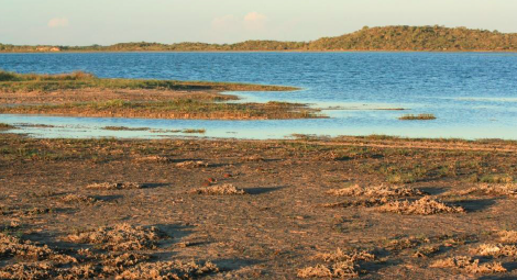 Malagasy plover breeding habitat at Lake Antsirabe, Andavadoaka, Madagascar, Eberhart-Phillips et al. 2013